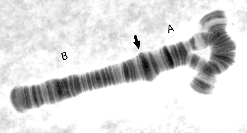 Inversion in A-arm of Axarus polyten chromosome. Author: SF Werle, original work